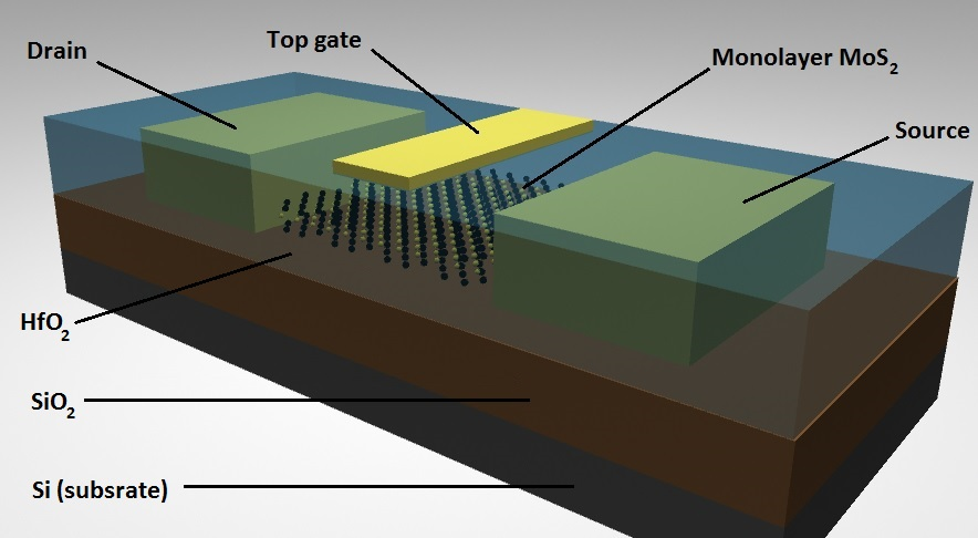 A Field effect transistor based on one monolayer of MoS2